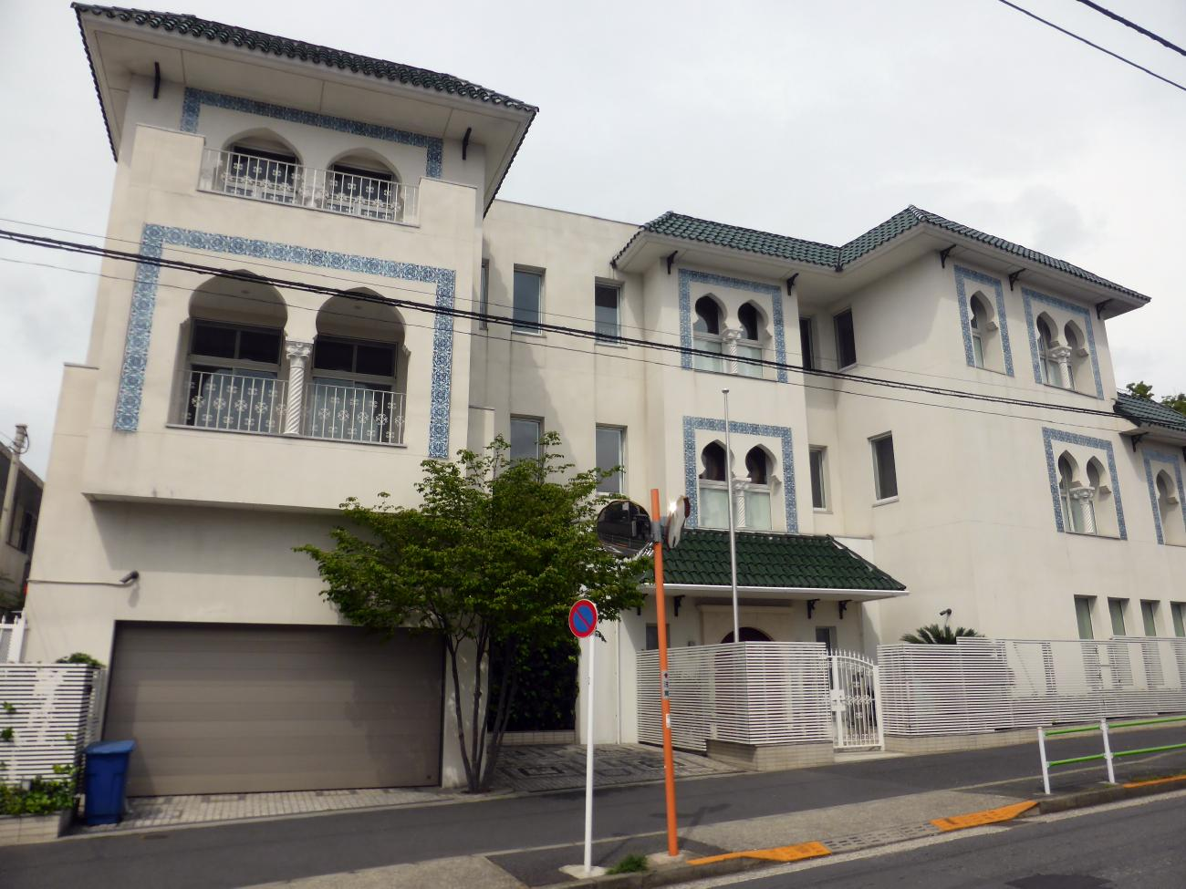 Residence of the Algerian Ambassador to Japan is located next to the Embassy of Pakistan.